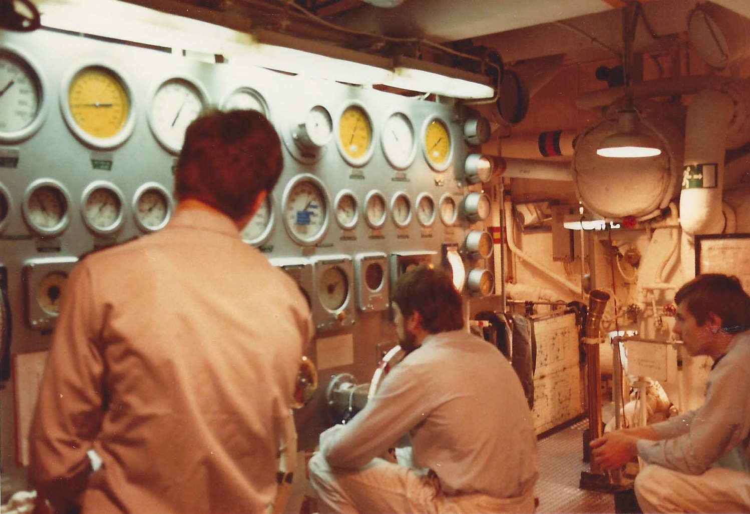 Control station of the engines of the German destroyer „Mölders“ (D 186).